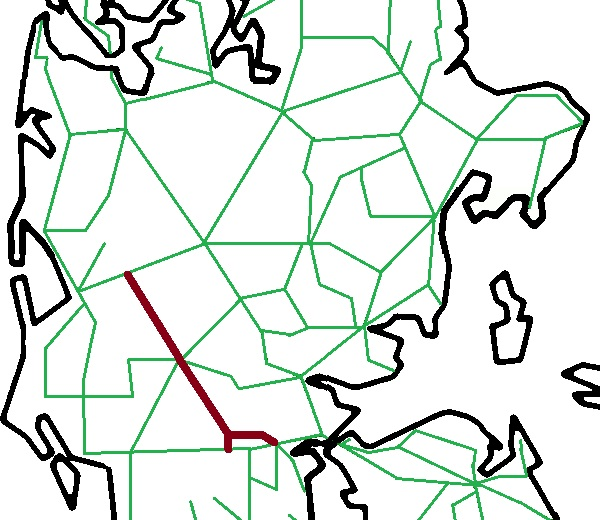 Map of railways in Middle Jutland in Denmark with the private railway Troldhede-Kolding-Vejen Jernbane in brown.